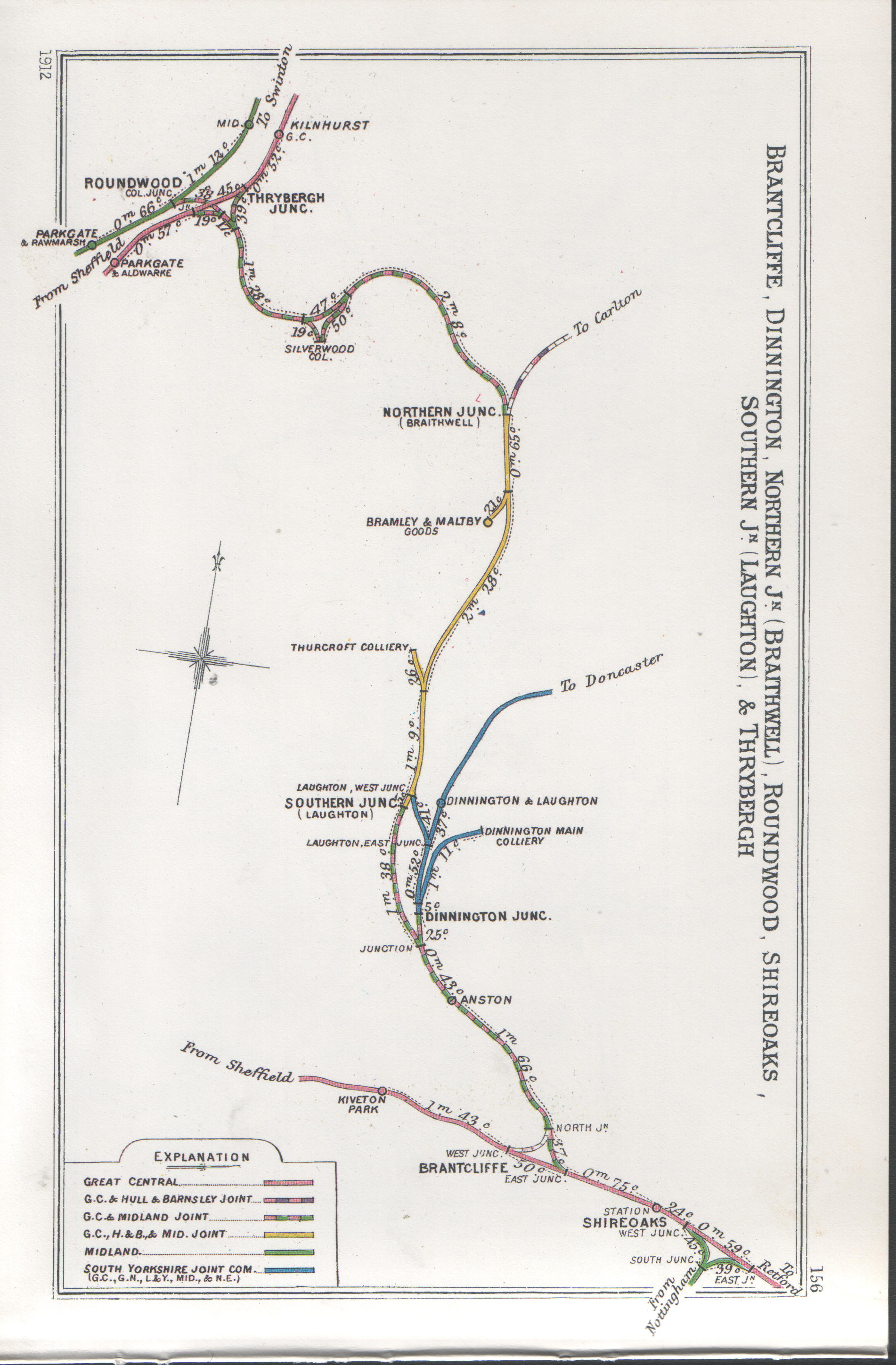 Pre Grouping railway junction around Brantcliffe, Dinnington, Northern Jn (Braithwell), Roundwood, Shireoaks, Southern Jn (Laughton) & Thrybergh